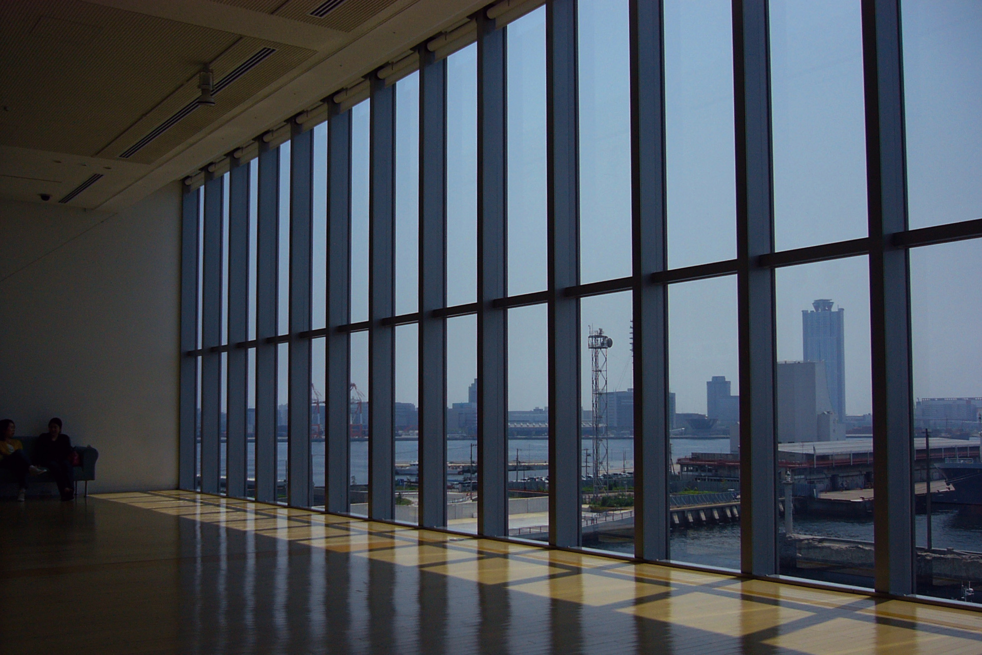 Suntory Museum in Osaka, Osaka prefecture, Japan